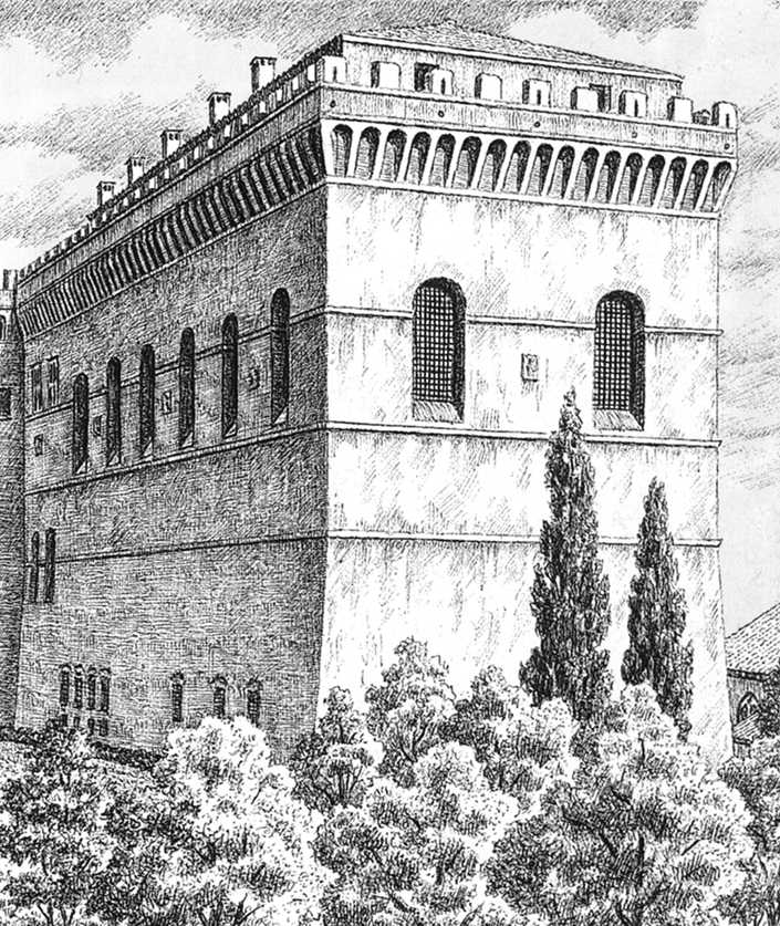 A reconstruction of the way the Sistine Chapel may have appeared from the exterior at the time of Michelangelo